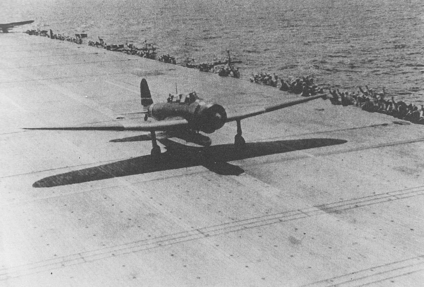 A Nakajima B5N2 Type 97 carrier attack aircraft equipped with a torpedo takes off from the Imperial Japanese Navy aircraft carrier Zuikaku on May 8, 1942 to attack United States Navy carrier forces during the Battle of the Coral Sea.